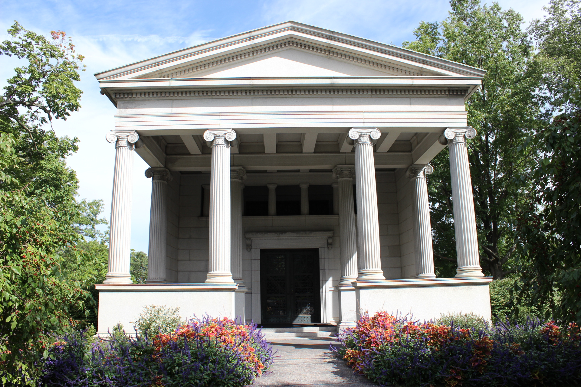 Main entrance of the Wade Memorial Chapel. Jeptha Wade was the founder of Western Union Telegraph. The interior was designed by Louis Comfort Tiffany.